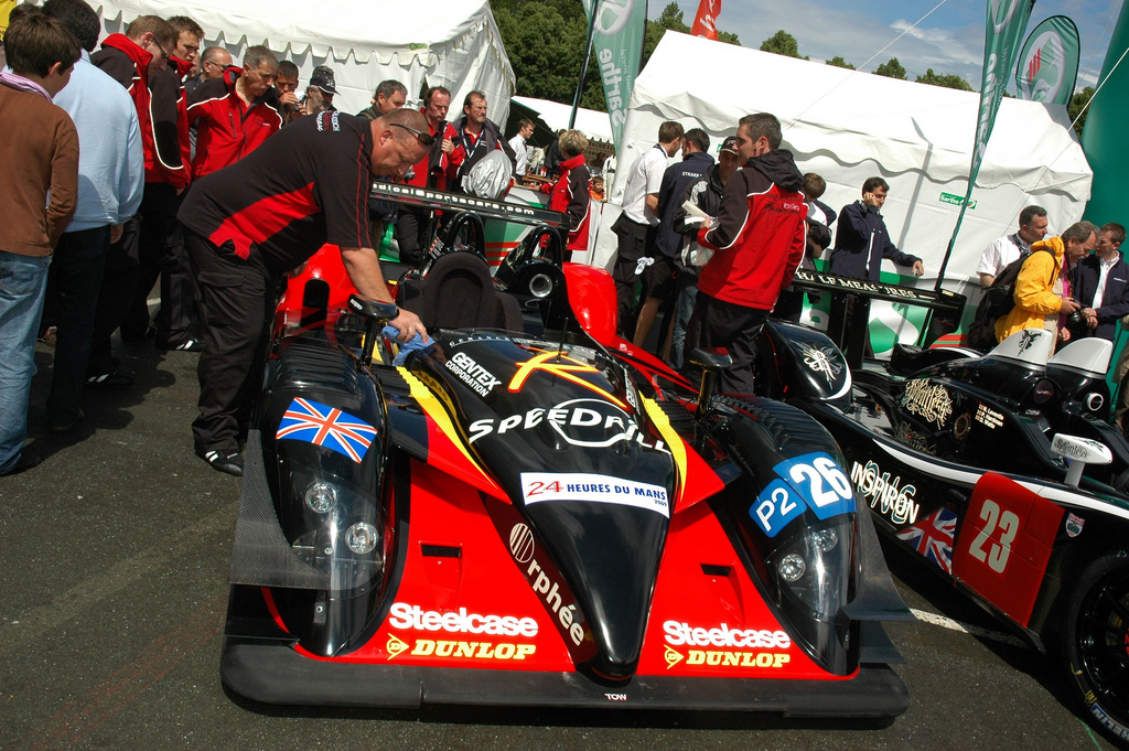 Bruichladdich-Bruneau Team's Radical SR9-AER at scrutineering for the 2009 24 Hours of Le Mans